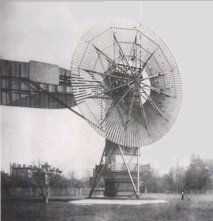 Charles F. Brush's 60 foot, 80,000 pound turbine that supplied 12kW of power to 350 incandescent lights, 2 arc lights, and a number of motors at his home for 20 years. It today is believed to be the first automatically operating wind turbine for electricity generation and was built in the winter of 1887 - 1888 in his back yard. Its rotor was 17 meters in diameter. The large rectangular shape to the left of the rotor is the vane, used to move the blades into the wind. The dynamo turned 50 times for every revolution of the blades and charged a dozen batteries each with 34 cells. For scale, note gardener pushing lawnmower underneath and to right of the turbine.